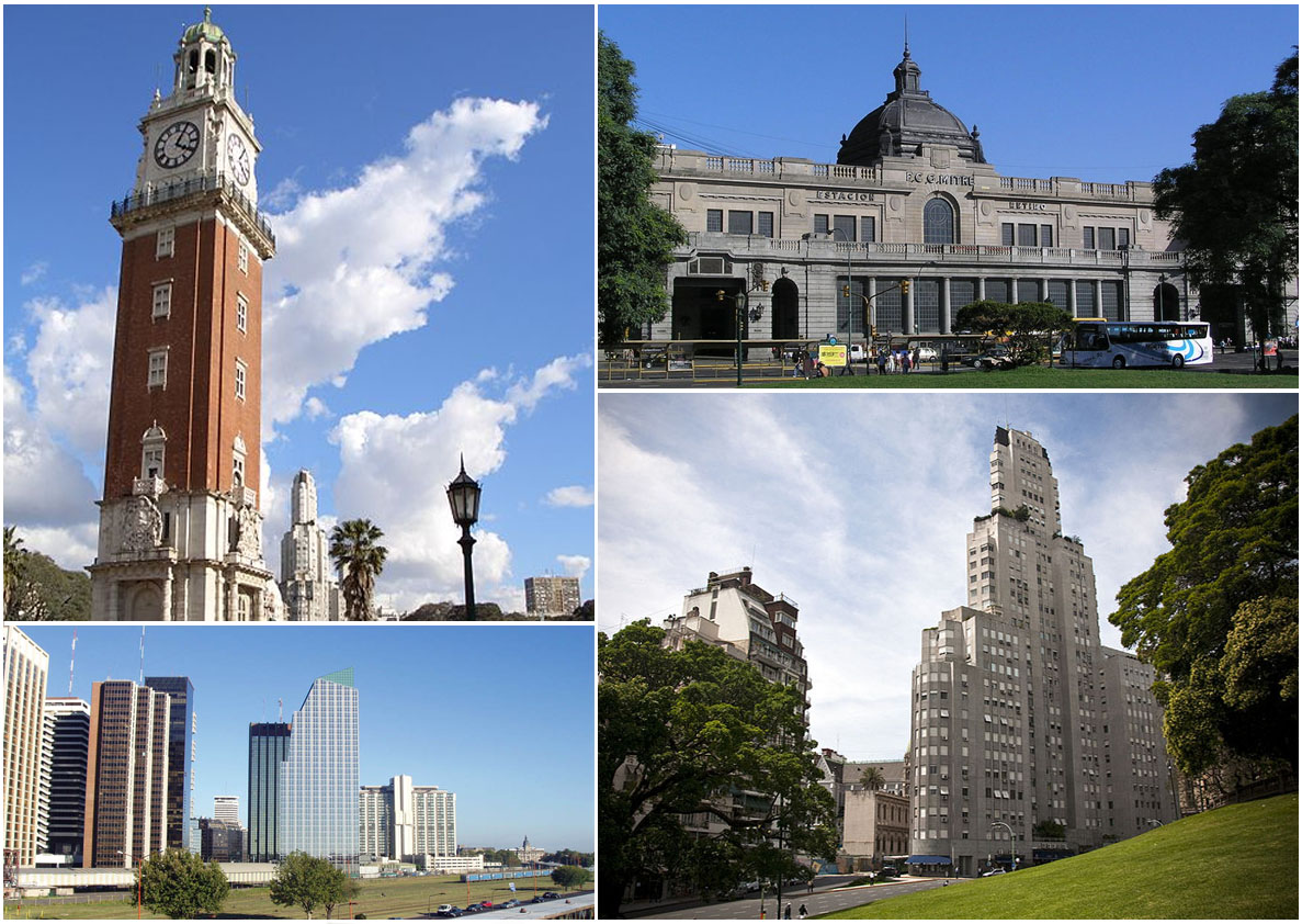 Photo montage of the Buenos Aires district of Retiro